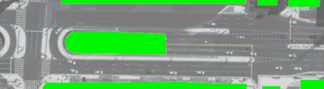 Illustration complementing ABr200613 MCA2268-multidao2.png